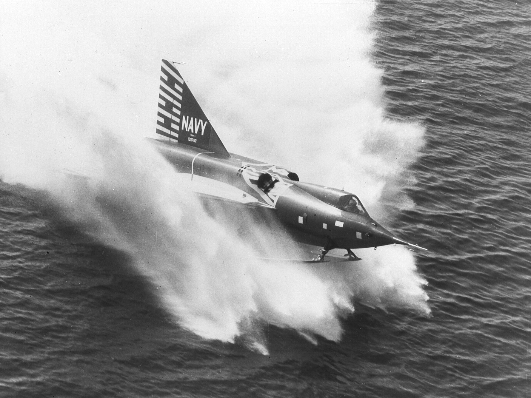 A U.S. Navy Convair built XF2Y-1 Sea Dart (BuNo 135762) during a landing. On 4 November 1954, 135762 disintegrated in mid-air over San Diego Bay, California (USA), during a demonstration for Navy officials and the press, killing Convair test pilot Charles E. Richbourg when he inadvertently exceeded the airframe limitations.